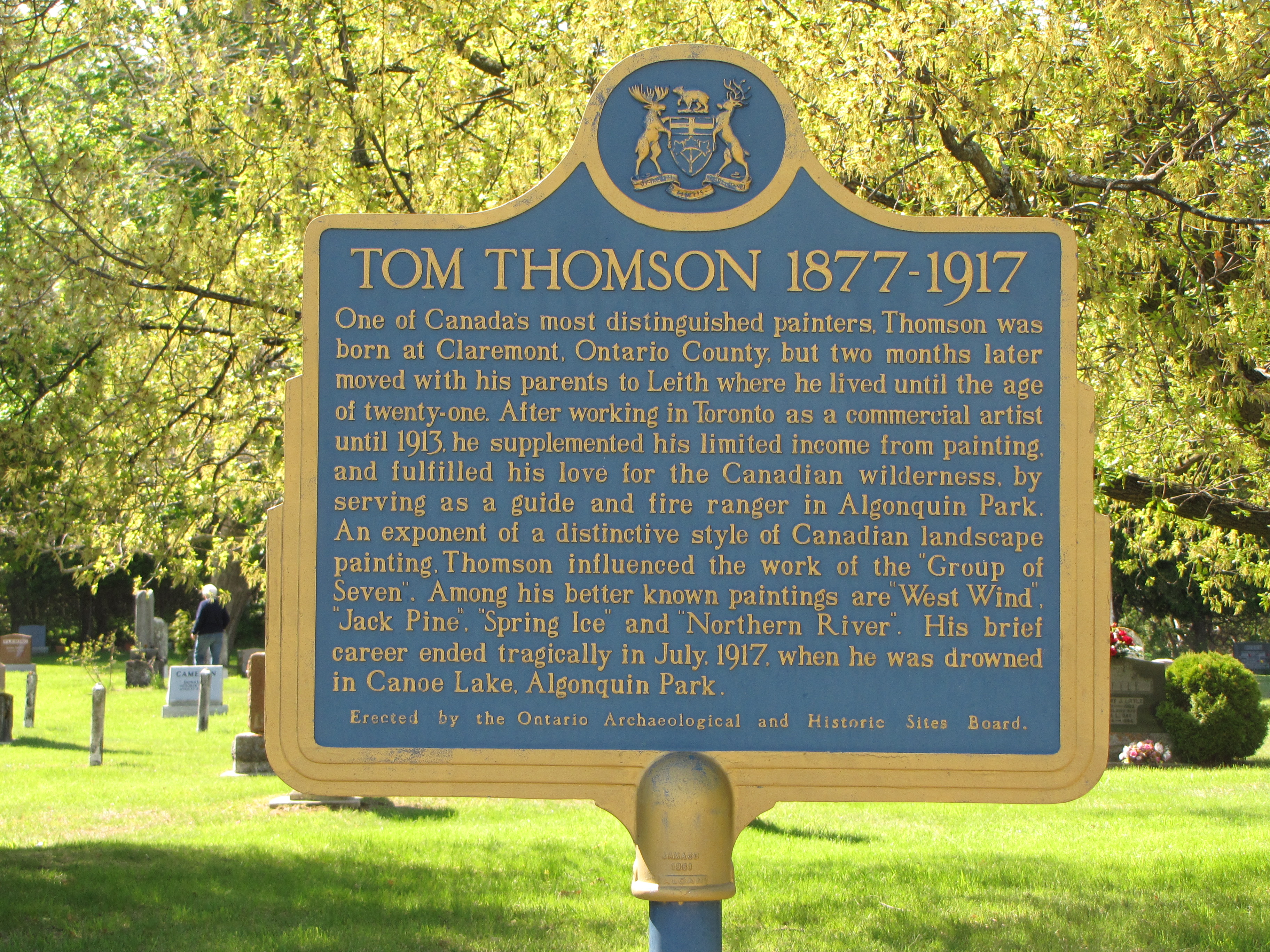 Historic plaque commemorating painter Tom Thomson, found in Leith, Ontario